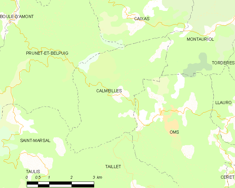 Map of French municipality